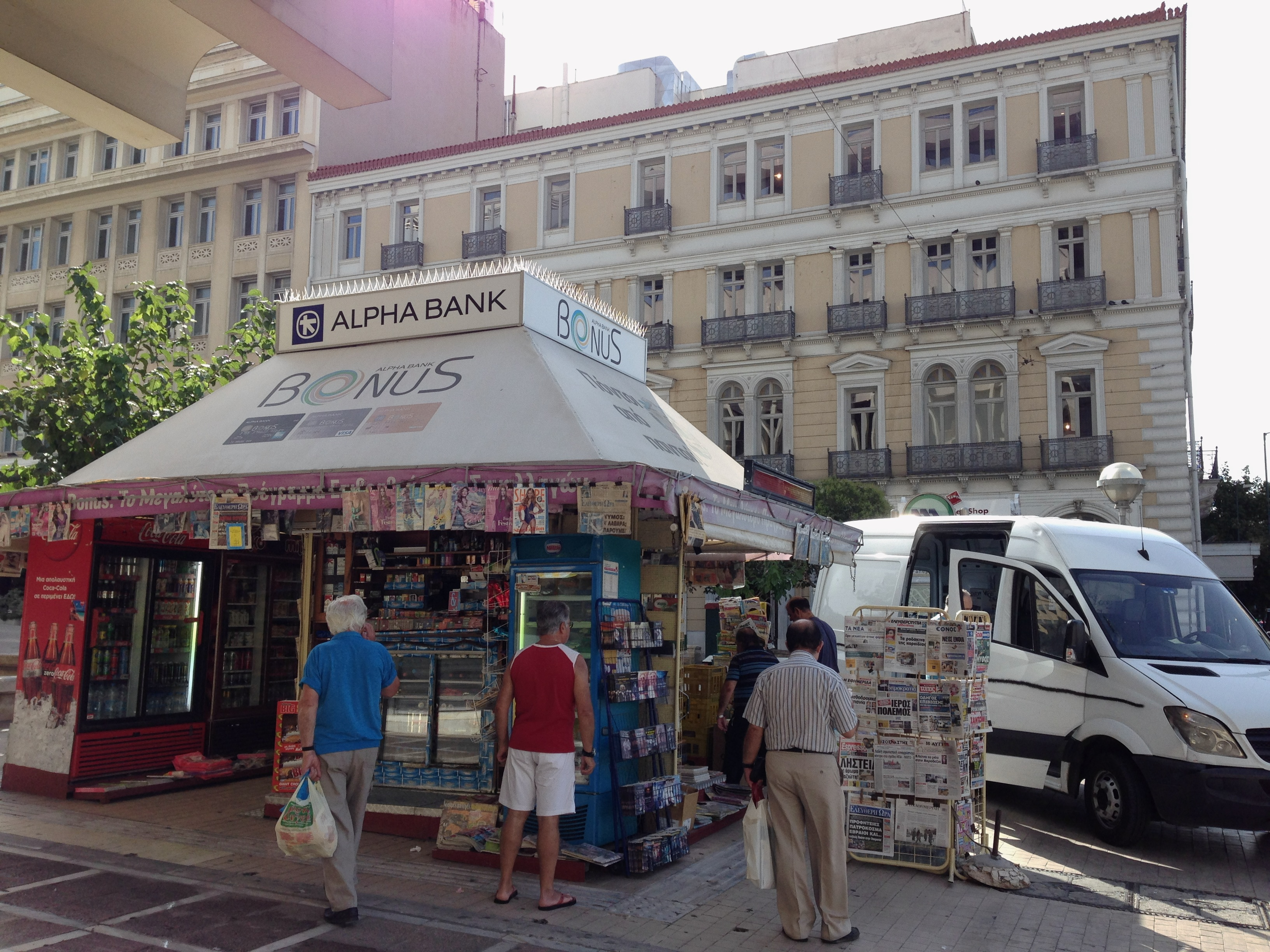 A typical newspaper kiosk on Korai street, Athens, Greece